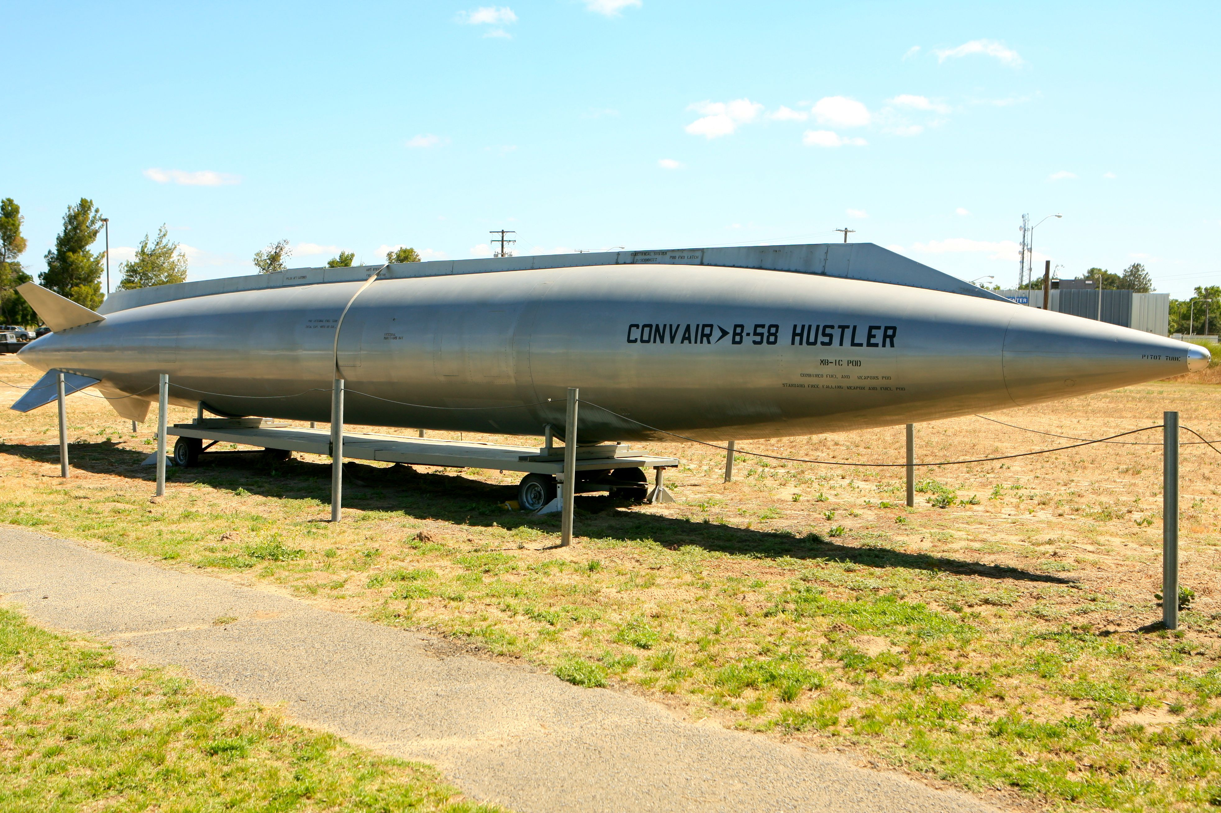 B-58 Hustler nuclear weapons and fuel external pod on display at Castle Air Museum in Atwood, California, USA